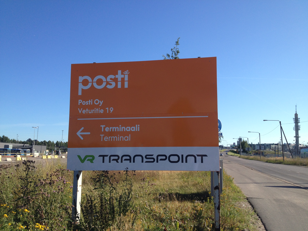 Railway terminal of posti in Helsinki